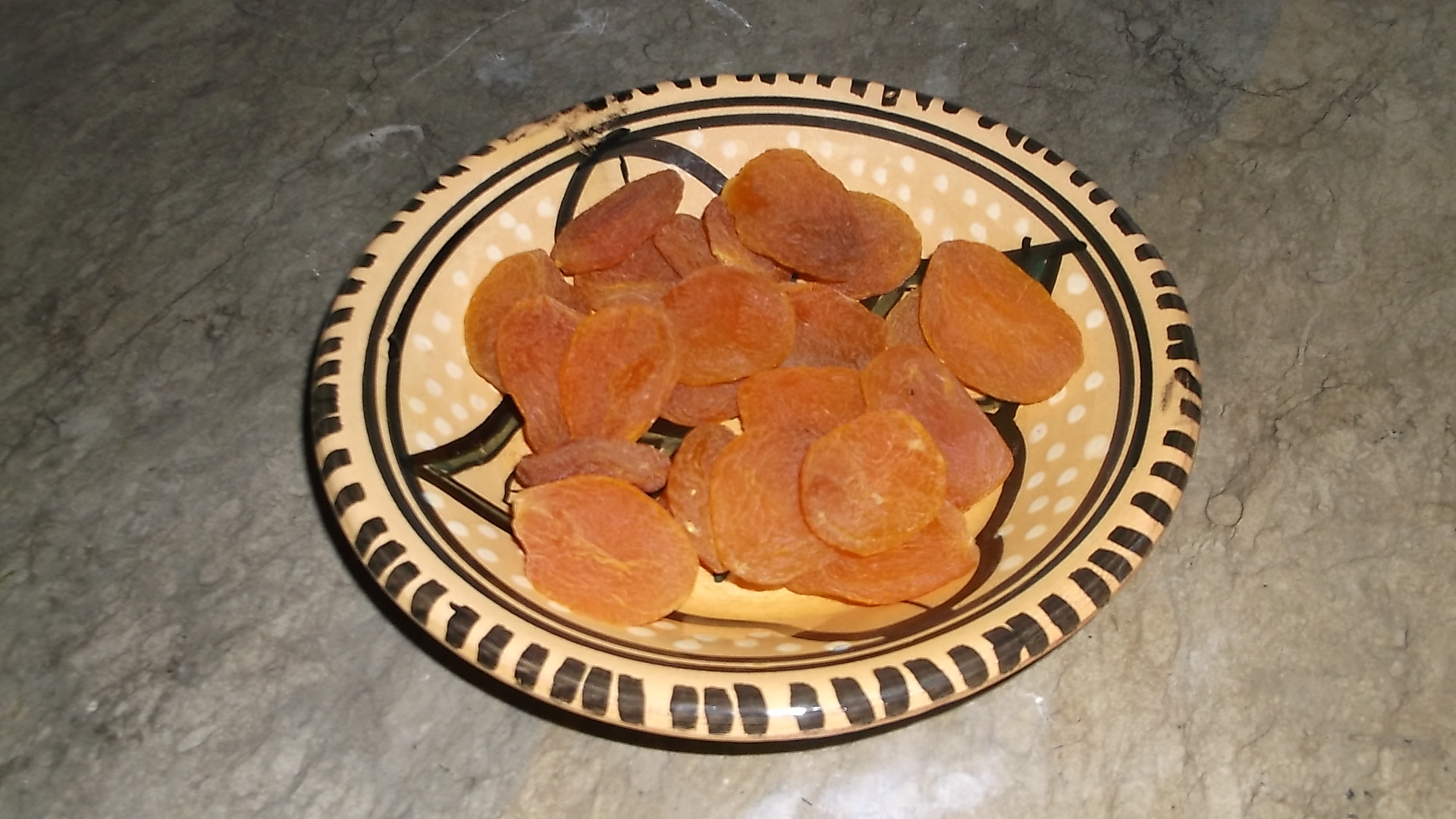 Dried Apricots This is an image of food from Tunisia